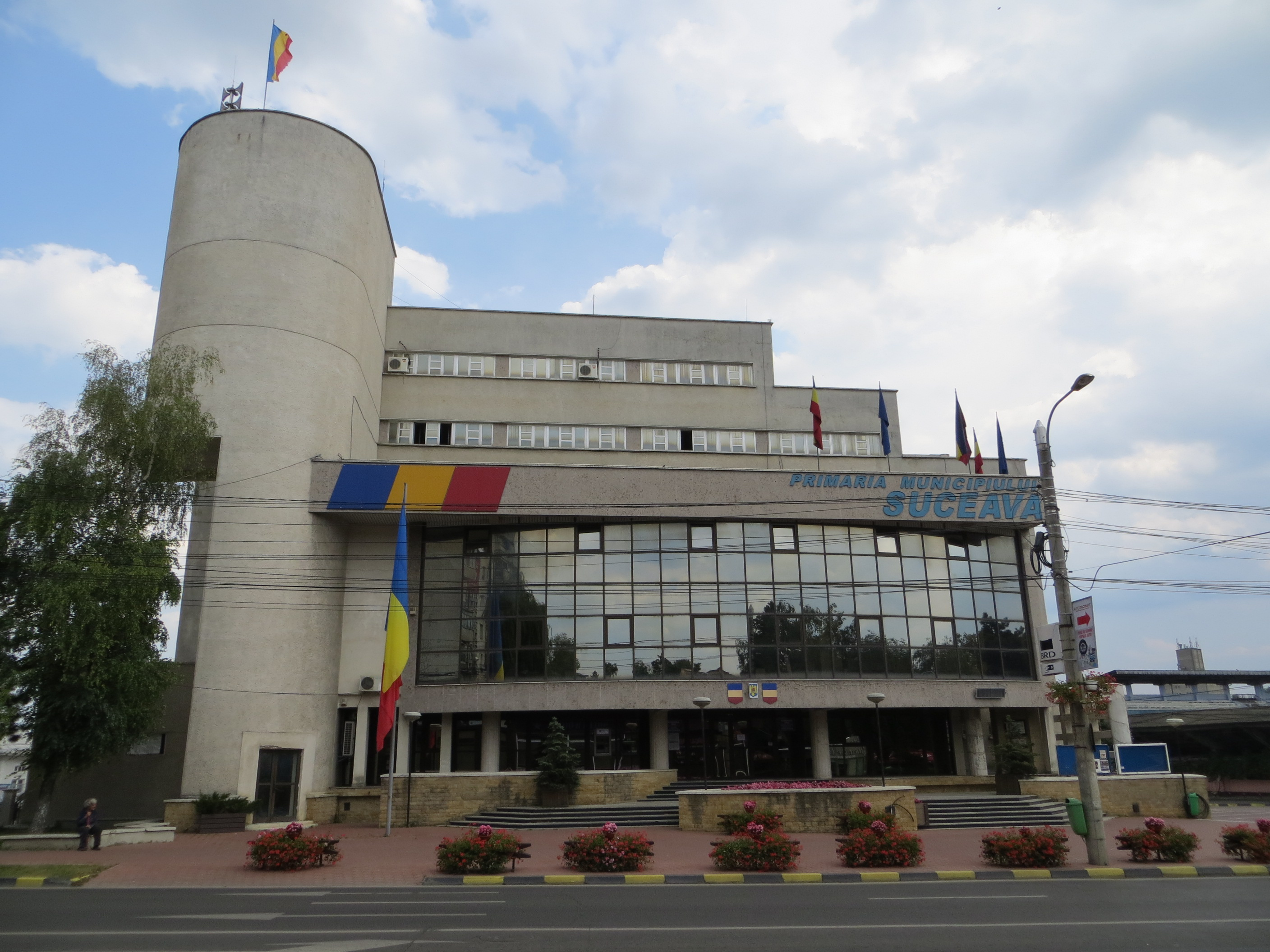 Suceava City Hall.